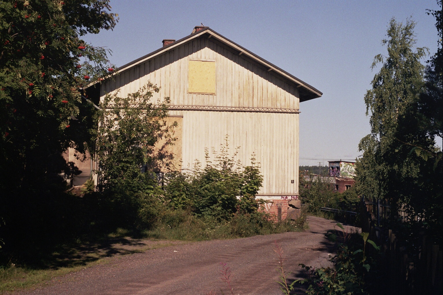 An old wooden house at the address Ratakatu 5 in the Santalahti district of Tampere, Finland. It was squatted in 2007 (Ratakatu Squat, later evicted).